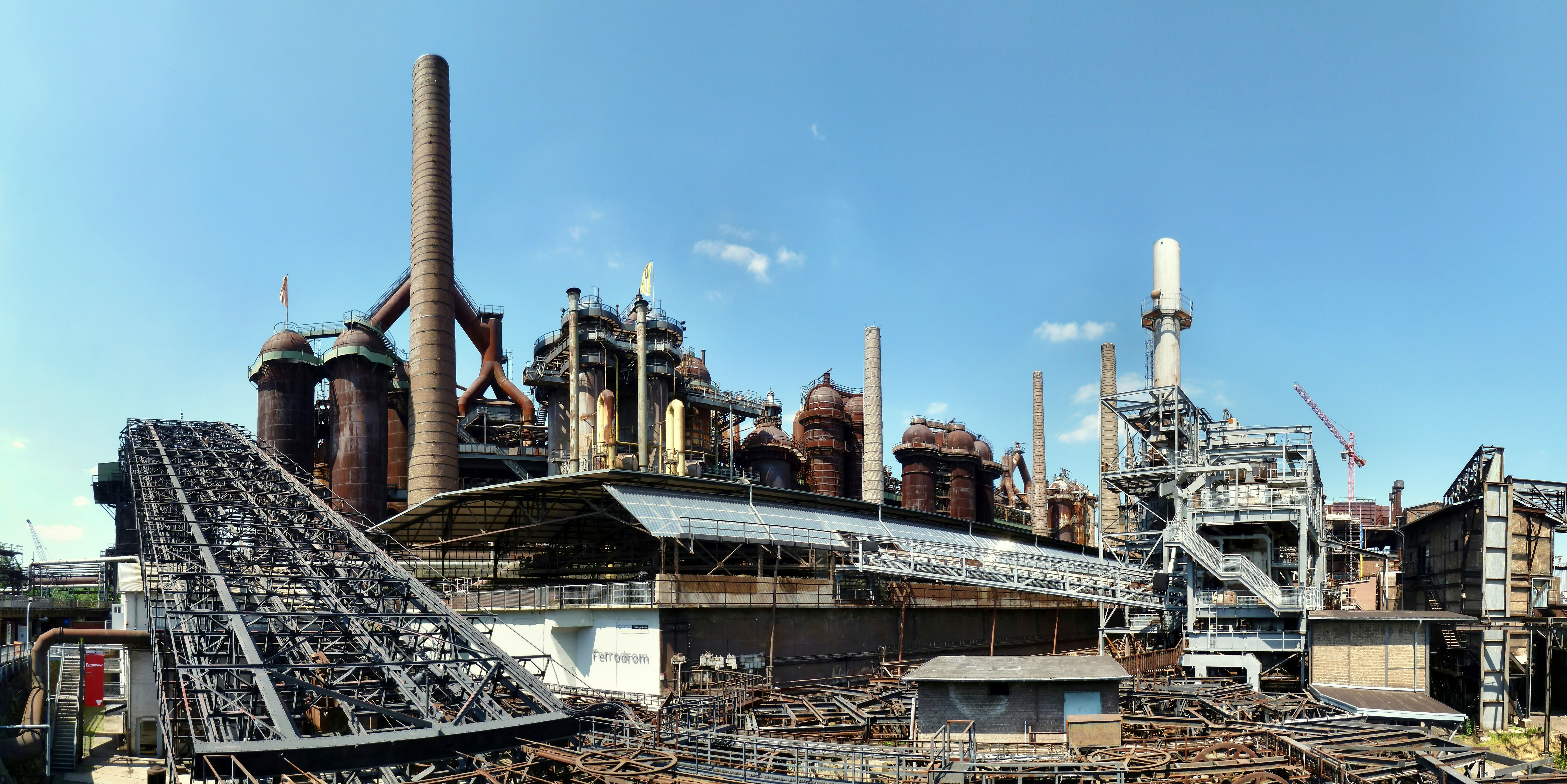 The Völklingen Ironworks (German: Völklinger Hütte) is located in the German town of Völklingen, Saarland. In 1994, it was declared by UNESCO a World Heritage site. The former ironwork was founded in 1873 and decommissioned in 1986. In 1994 it was declared a World Heritage site by the UNESCO and is regarded the most important location of the industrial culture in Europe today (2010).